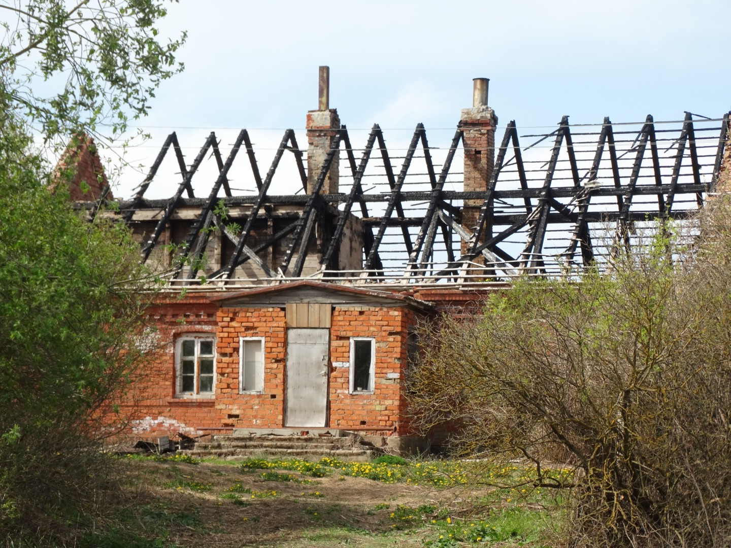 Guostagalis, house after a fire, Pakruojis District, Lithuania